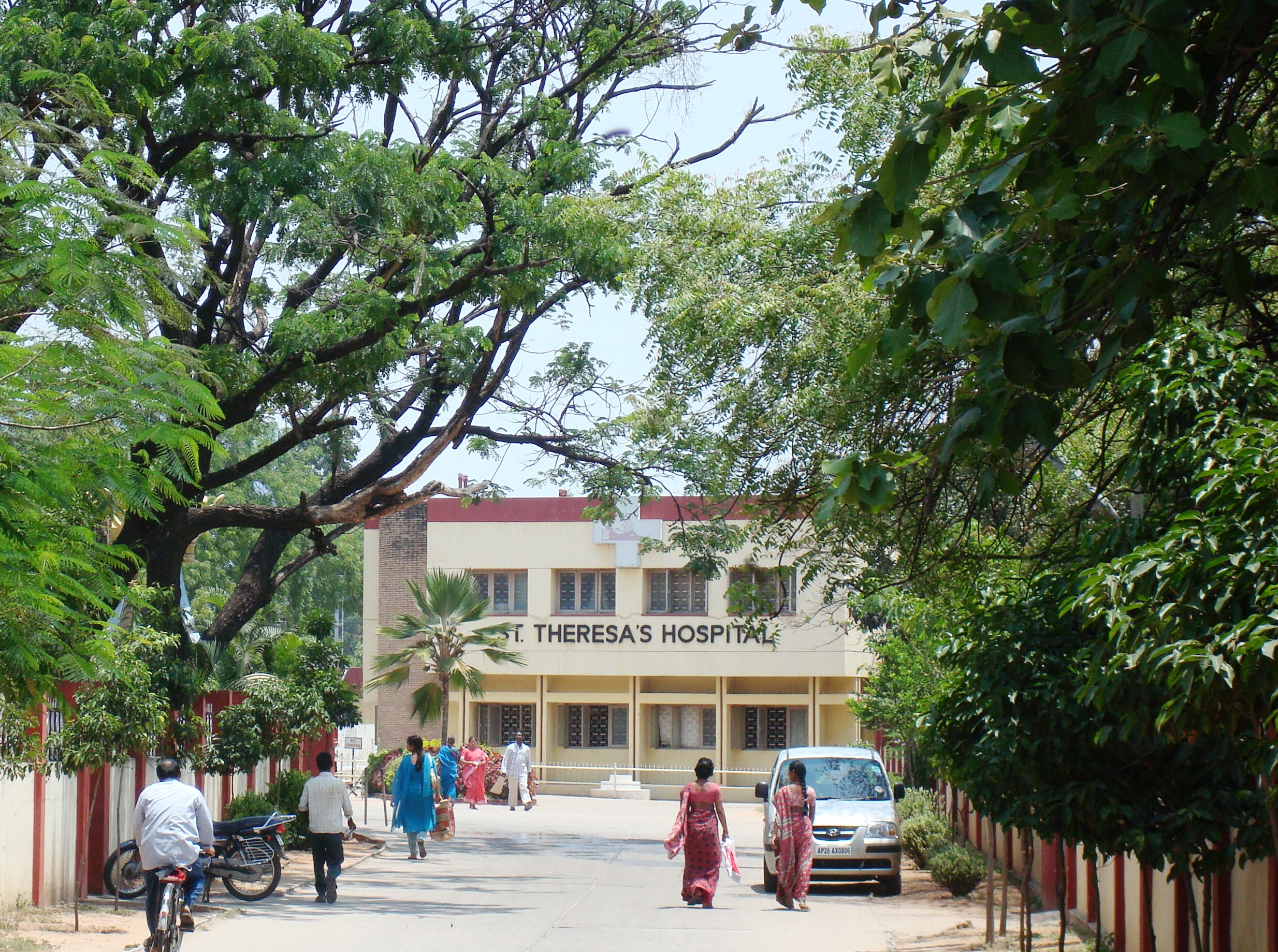 St.Theresa's hospital at Sanathnagar, Hyderabad, one of the oldest hospitals in the area.